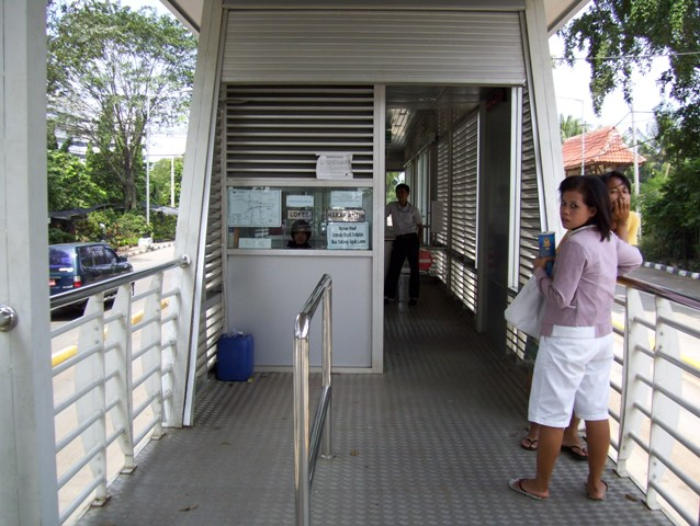 Busway ticket stand, Wickets (service window)